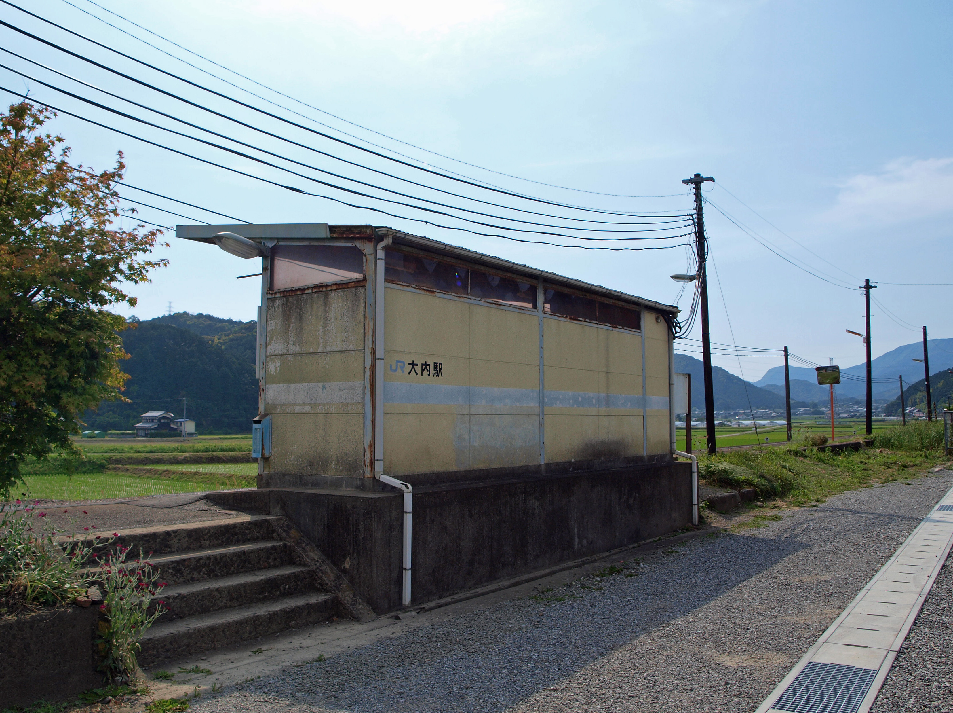 Ōuchi station, Yodo-line, JR Shikoku, Japan